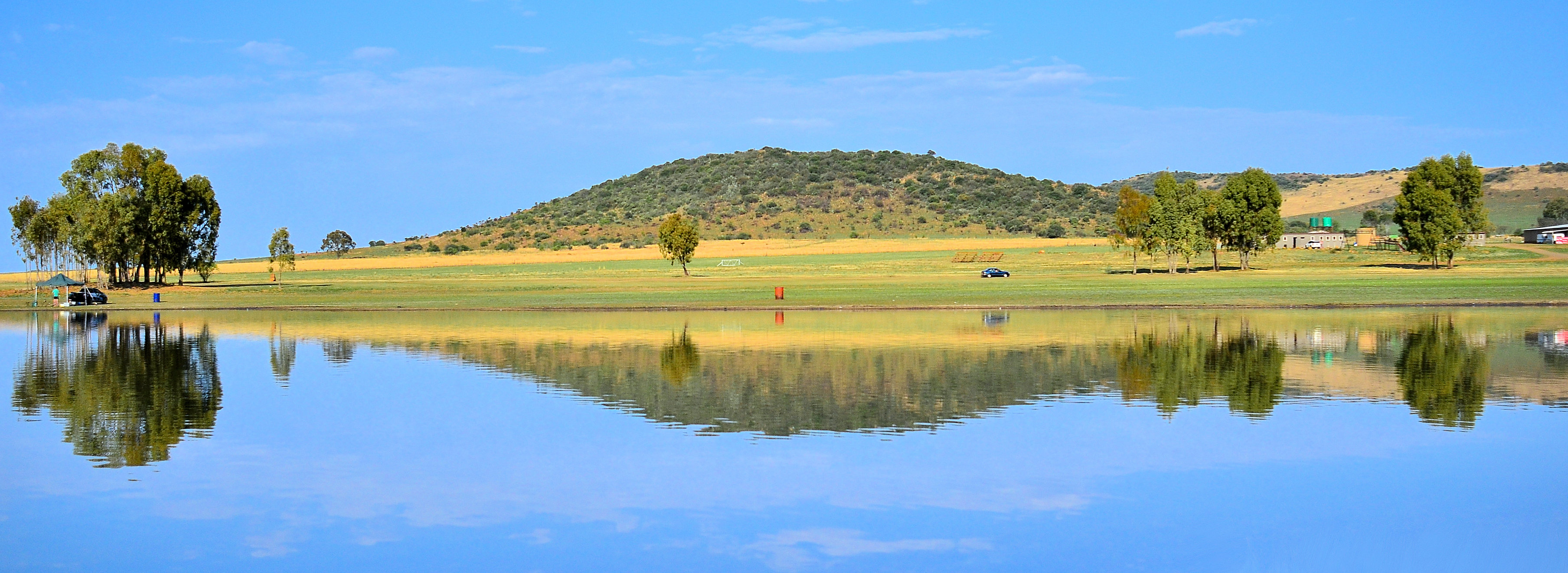 The Vaal Dam in South Africa, a playground for water sport enthusiasts. This is an image with the theme "Play" from: South Africa